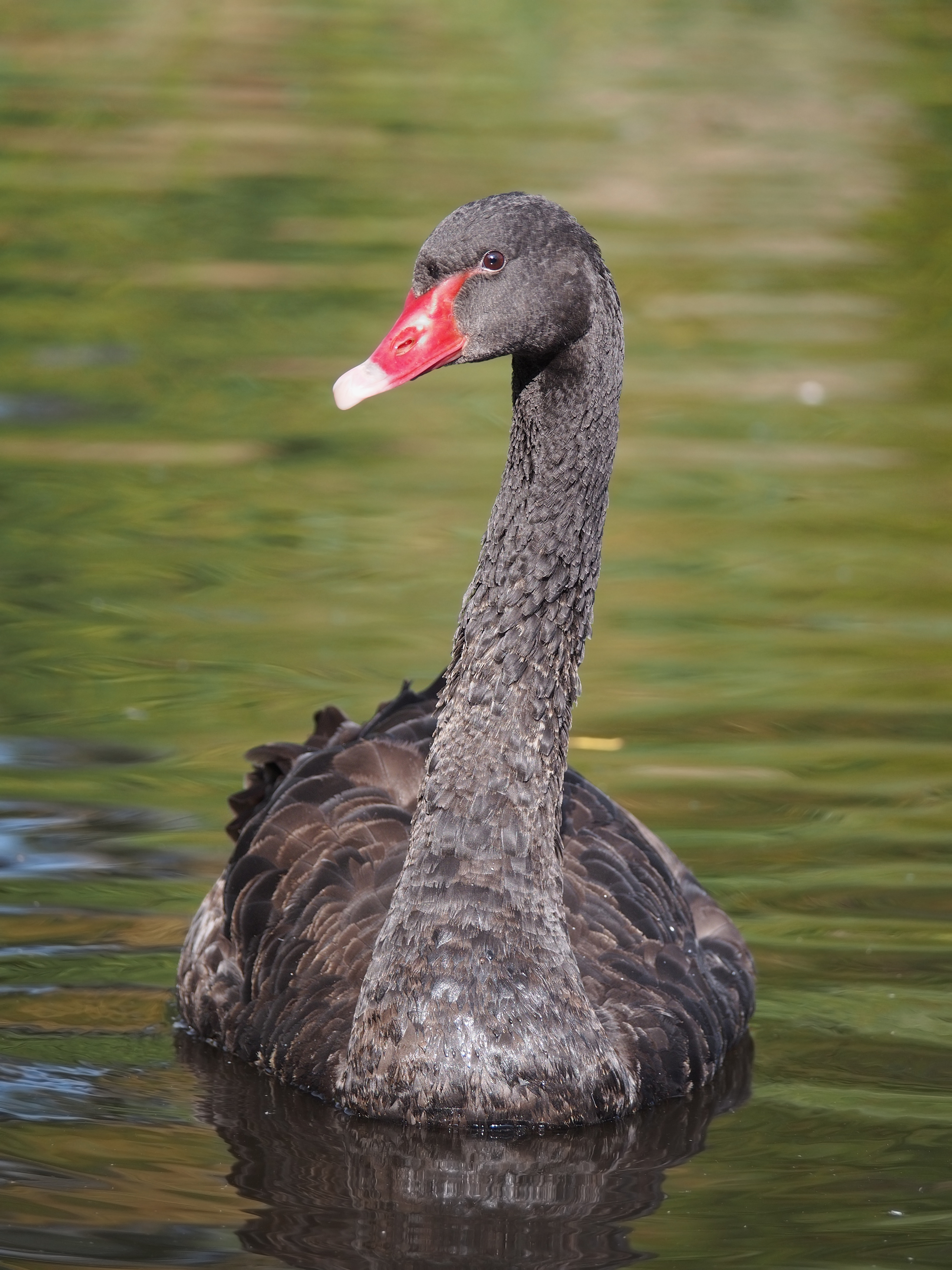 Black swan, Cygnus atratus, at Martin Mere, UK